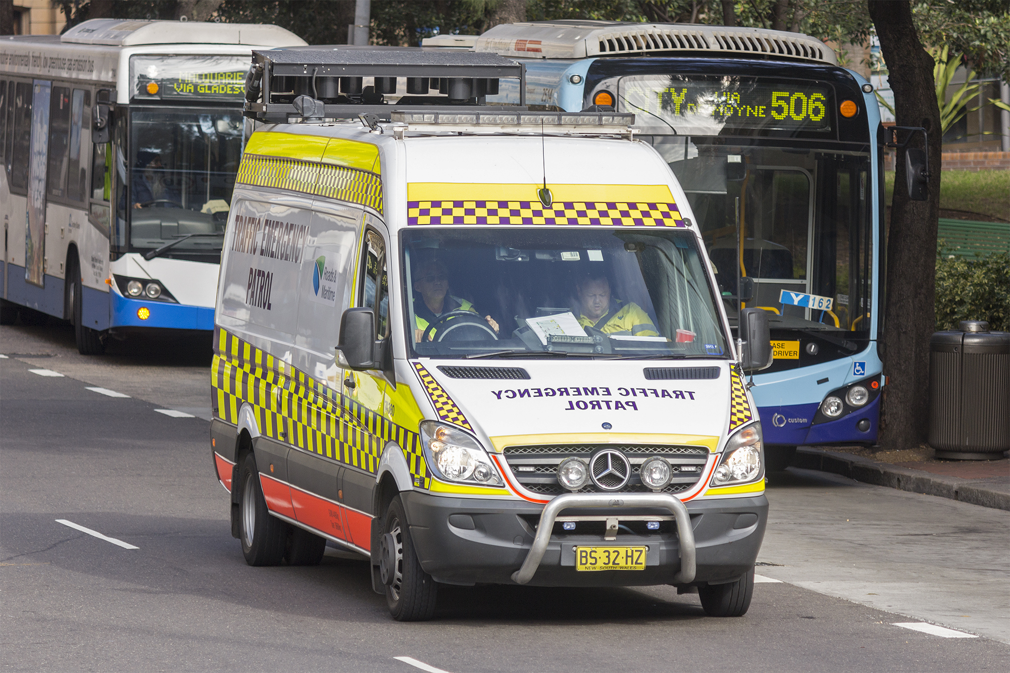 Roads and Maritime Services Traffic Emergency Patrol van on Loftus Street in Circular Quay, New South Wales.